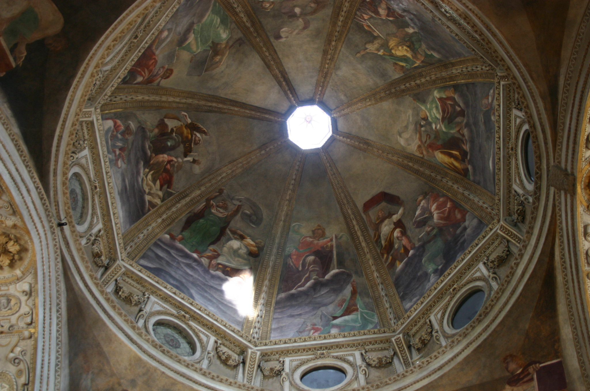 The dome, with frescos painted by Giovanni Paolo Lomazzo, in the Foppa chapel in san Marco church at Milan (shot with a flash). Picture by Giovanni Dall'Orto, April 14 2007. Luce naturale. Col flash